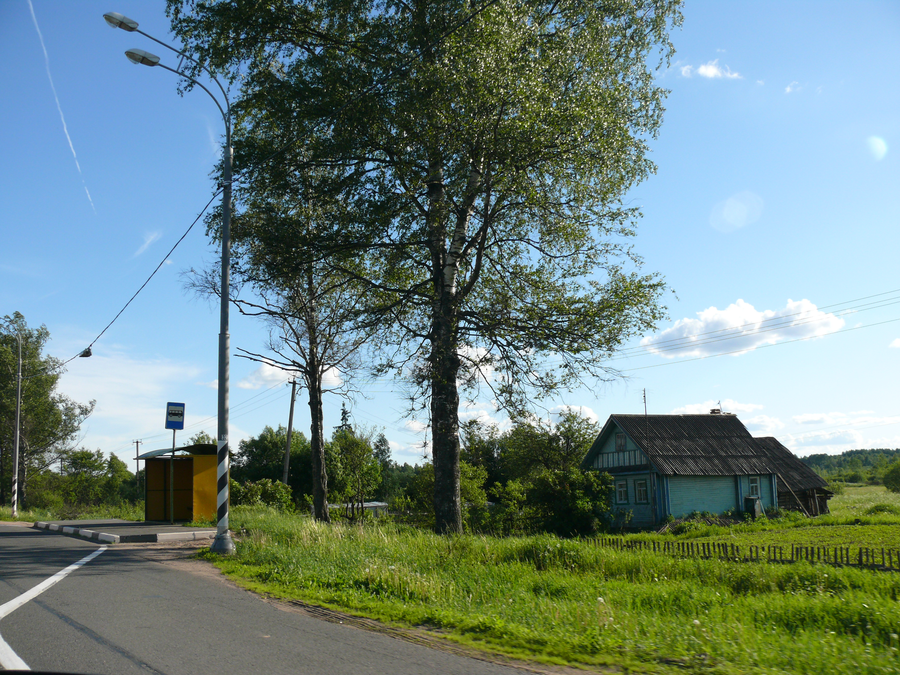 Bus stop and a house in Mostki village. Chudovsky district, Novgorod oblast, Russia